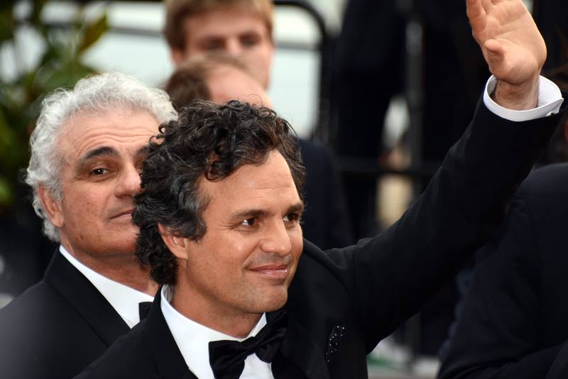 Mark Ruffalo at the Cannes film festival